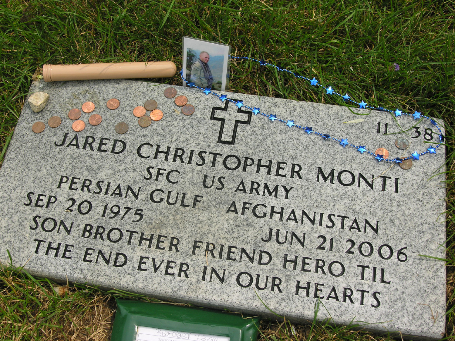 A personal photo of Sergeant 1st Class Jared C. Monti, the first Soldier recipient for actions in Afghanistan/Operation Enduring Freedom. To learn more, visit